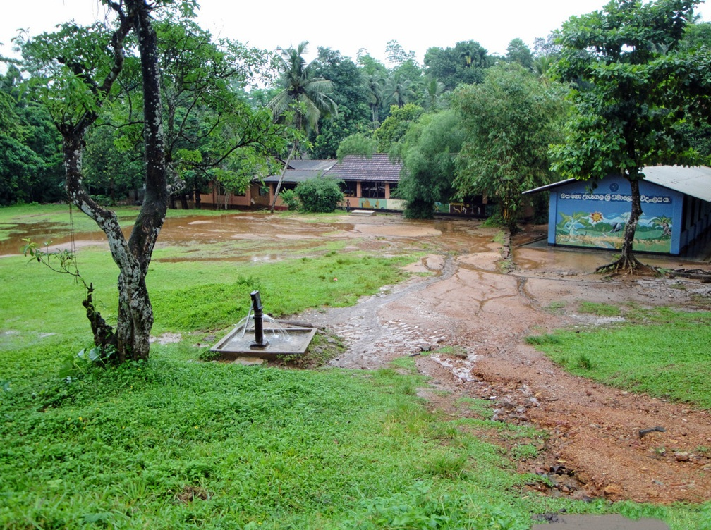 Ingiriya Climate02